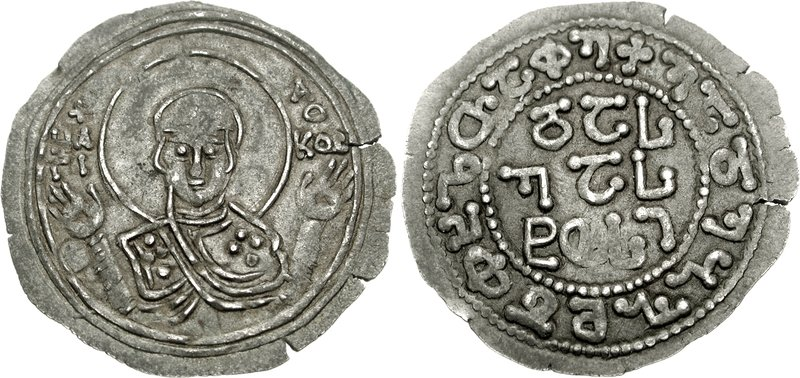 GEORGIA, Kingdom. Bagrat IV. 1027-1072. AR Dram (1.97 g, 12h). Struck 1060-1072. + HA/GI A/Θ/KOC, facing bust of Theotokos (Virgin Mary), orans / "+ God preserve Bagrat, King of the Abkhazians, Sebastos" in Georgian, in margin and continuing in central field. Pakhamov pl. III, 42; Kapanadze 46; Dobrovolsky -; Lang pp. 19-20. Near EF, attractively toned. Extremely rare.